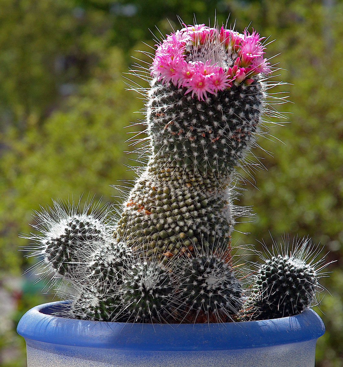 This image shows a cactus of the species Mammillaria spinosissima cv un pico.